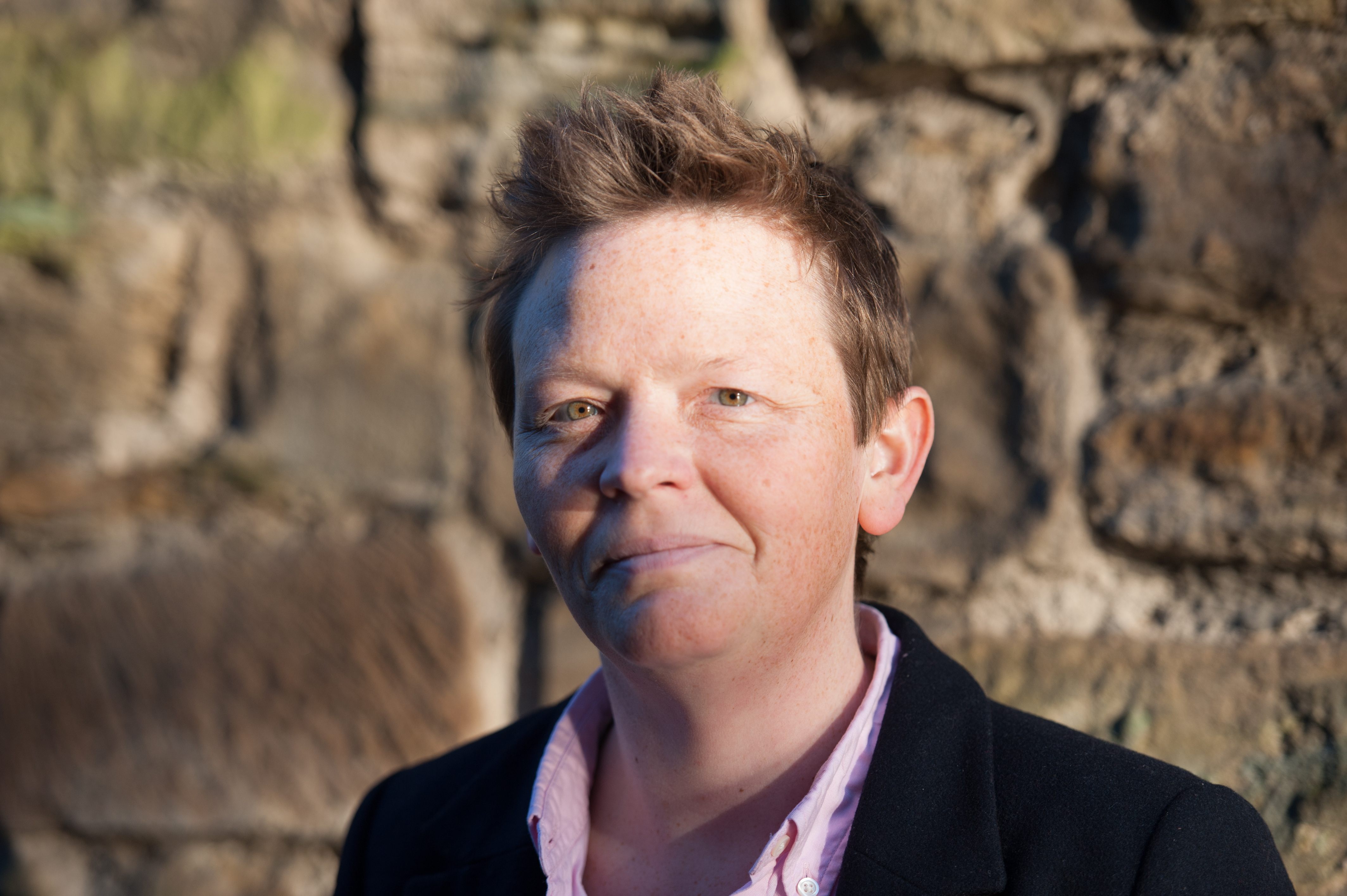 Image of Professor Jennifer Ingleheart of Durham University